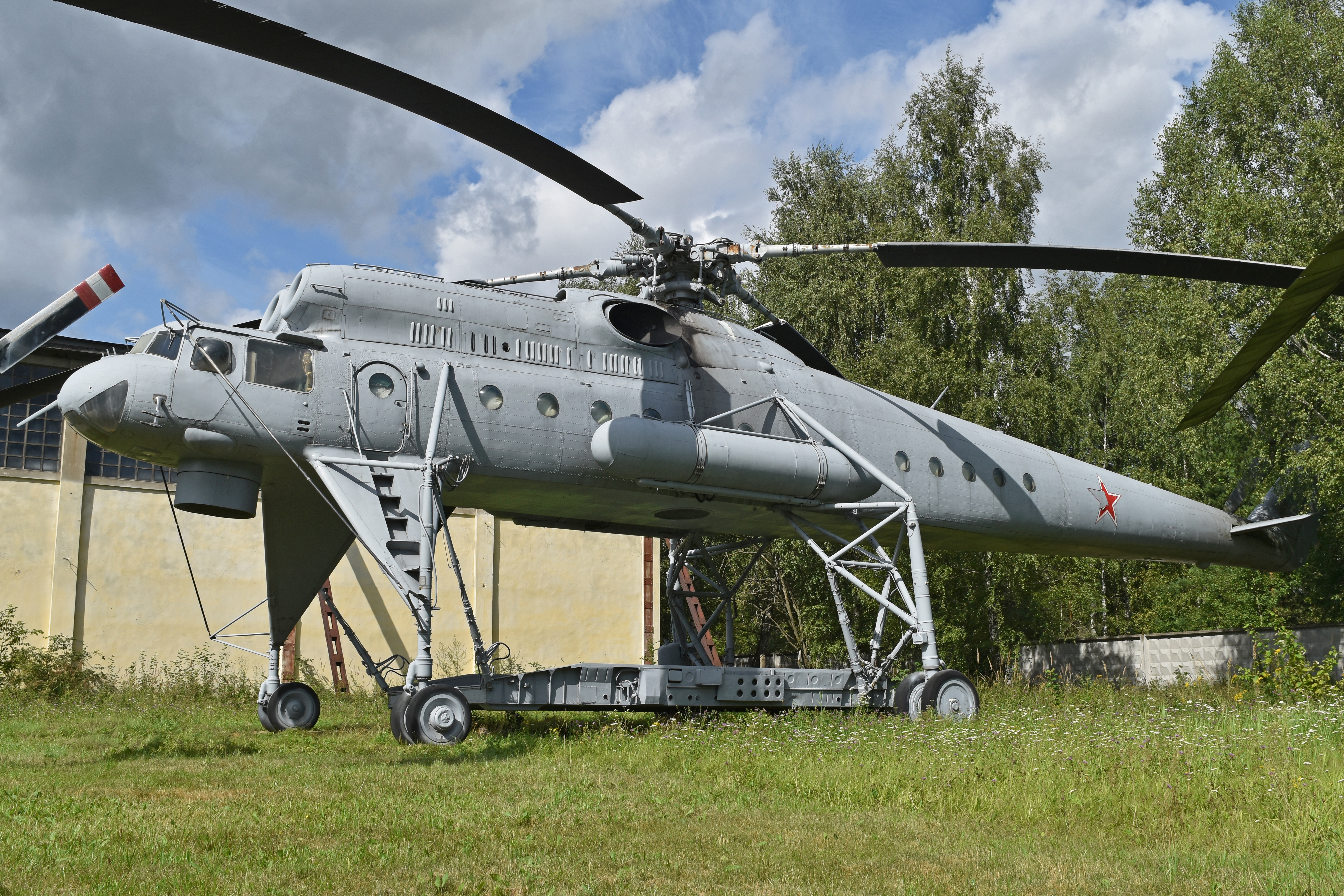 c/n 8680604K NATO codename:- Harke The Mil-10 was developed from the Mil-6 to provide a flying crane capability. 55 were built including 17 Mi-10K variants with short undercarriage and no underslung payload capability. This long-legged example, previously marked as ’44 white’ was built in 1968 and retired to Monino in 1974 after only 92 hours flying. On display at the Central Air Force museum, Monino, Moscow Oblast, Russia. 27th August 2017